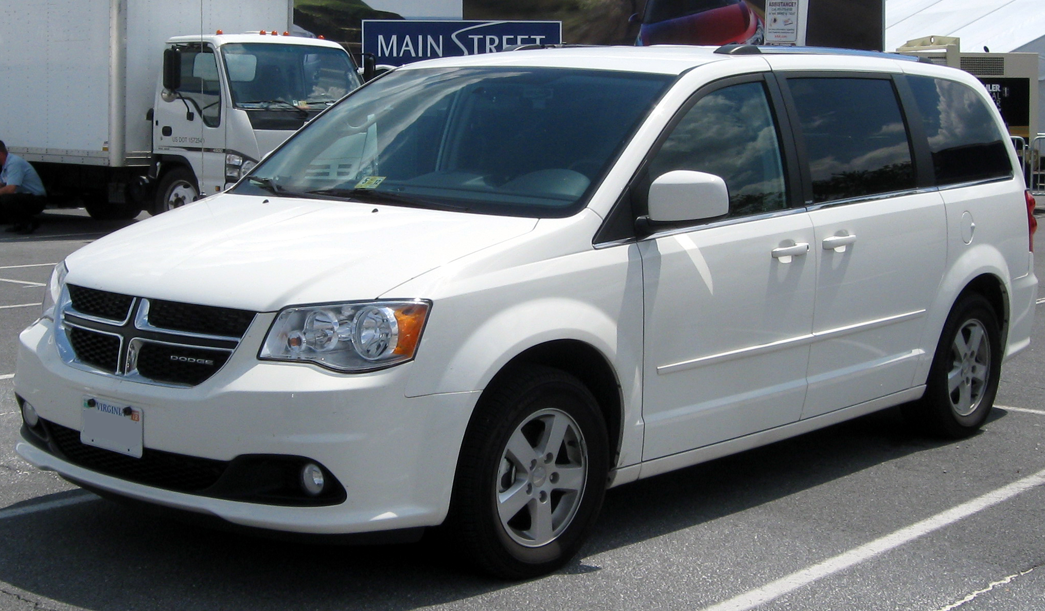 2011 Dodge Grand Caravan photographed in Largo, Maryland, USA.